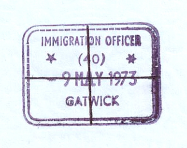 Van Duyn passport stap entrance UK